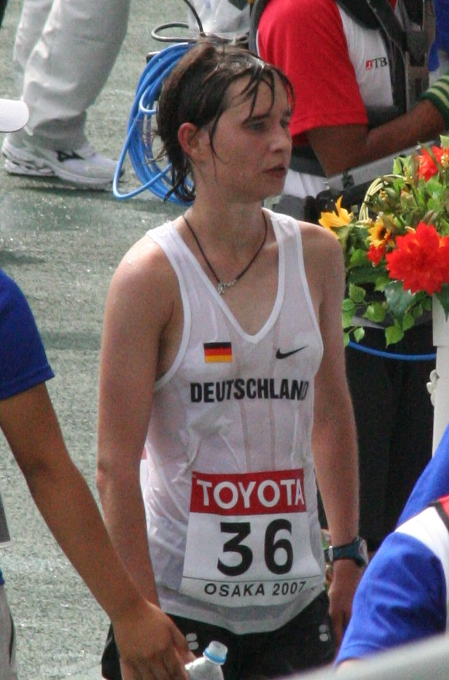 World Athletics Championships 2007 in Osaka - German marathon runner Melanie Kraus